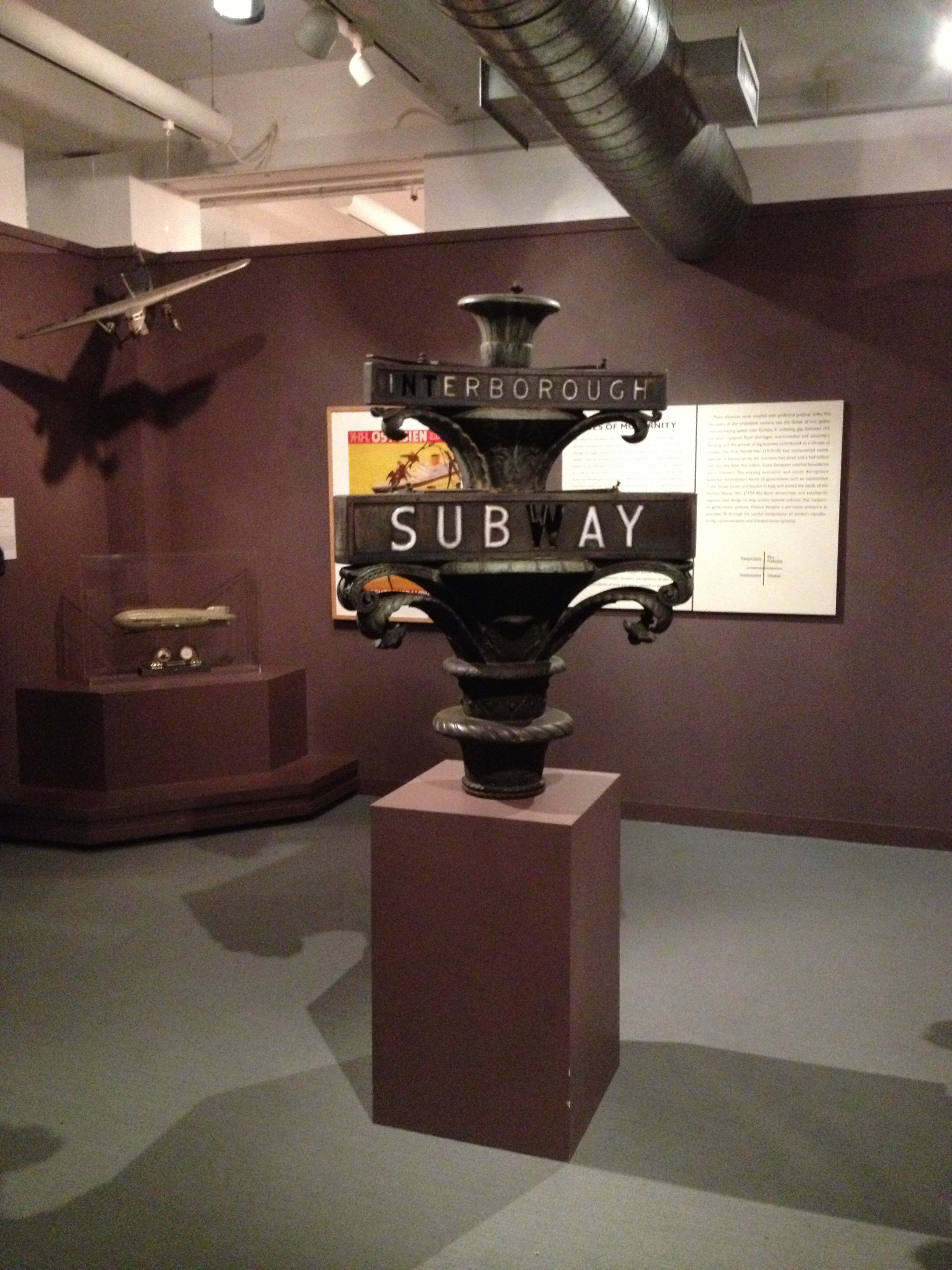 View of interior of permanent installation galleries at The Wolfsonian-FIU, Miami Beach, Florida, USA.